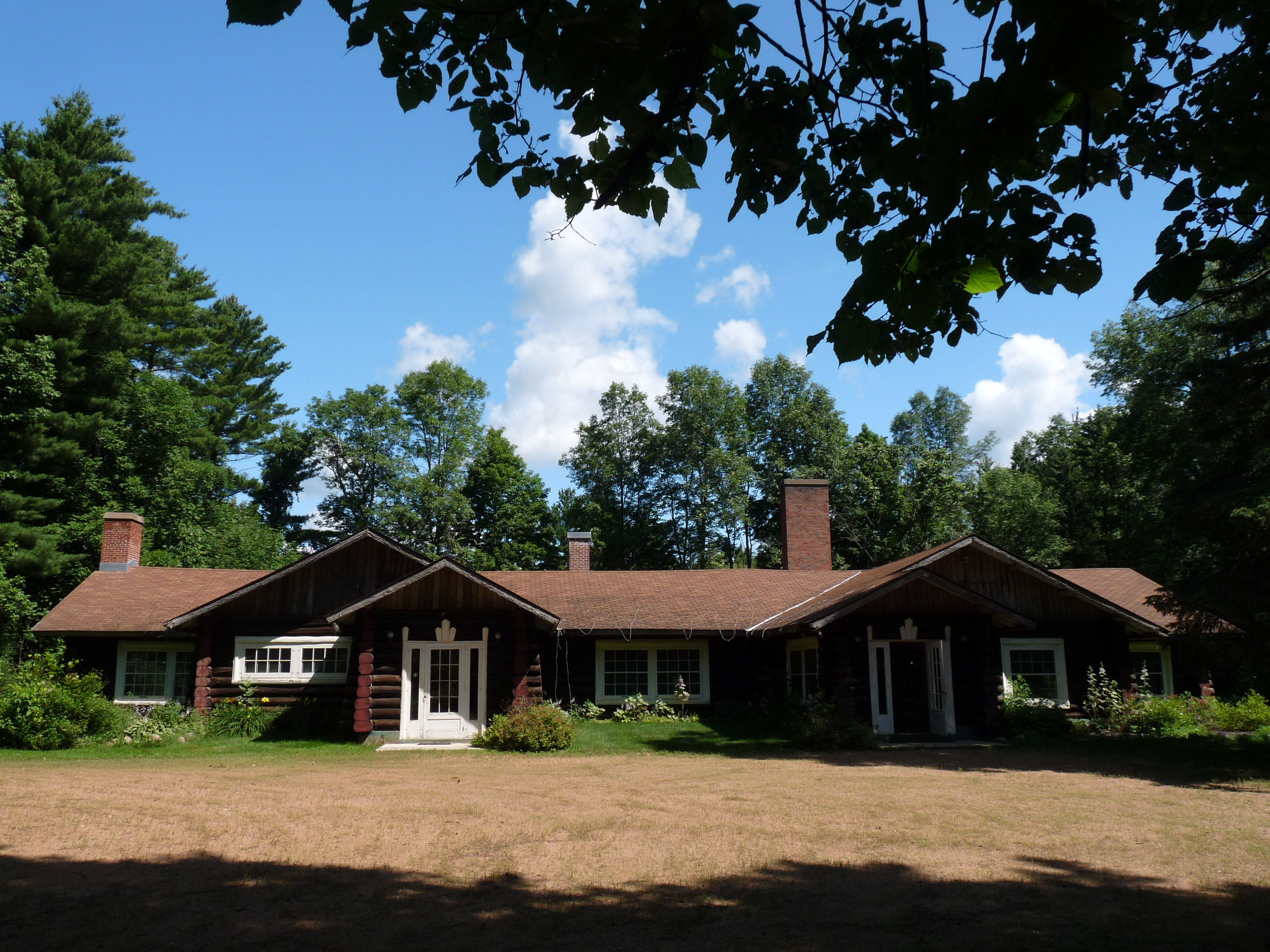 The Fromm brothers of Hamburg, Wisconsin built this rustic lodge with a bar and bowling alley to entertain guests and buyers at their large fox and ginseng farm, which was far removed from urban refinements.